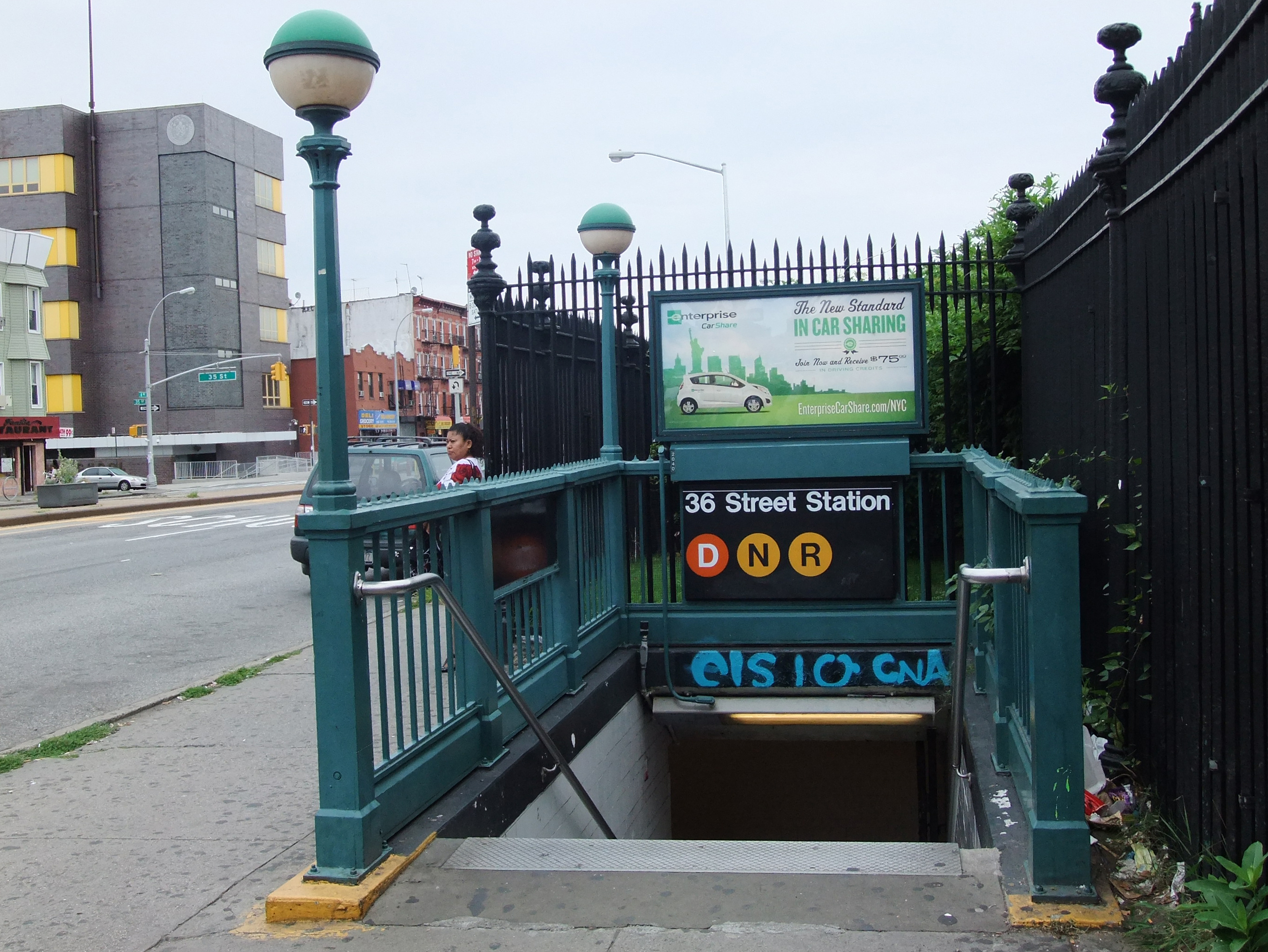 Close up entrance to the 36th Street BMT subway station in Brooklyn.